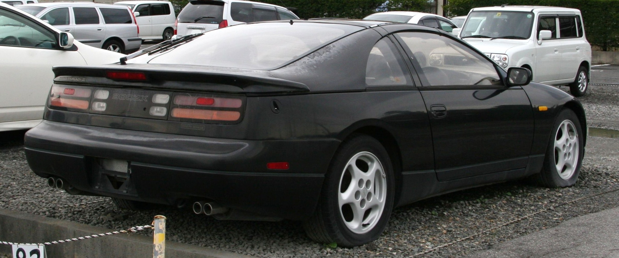 NISSAN Fairlady Z